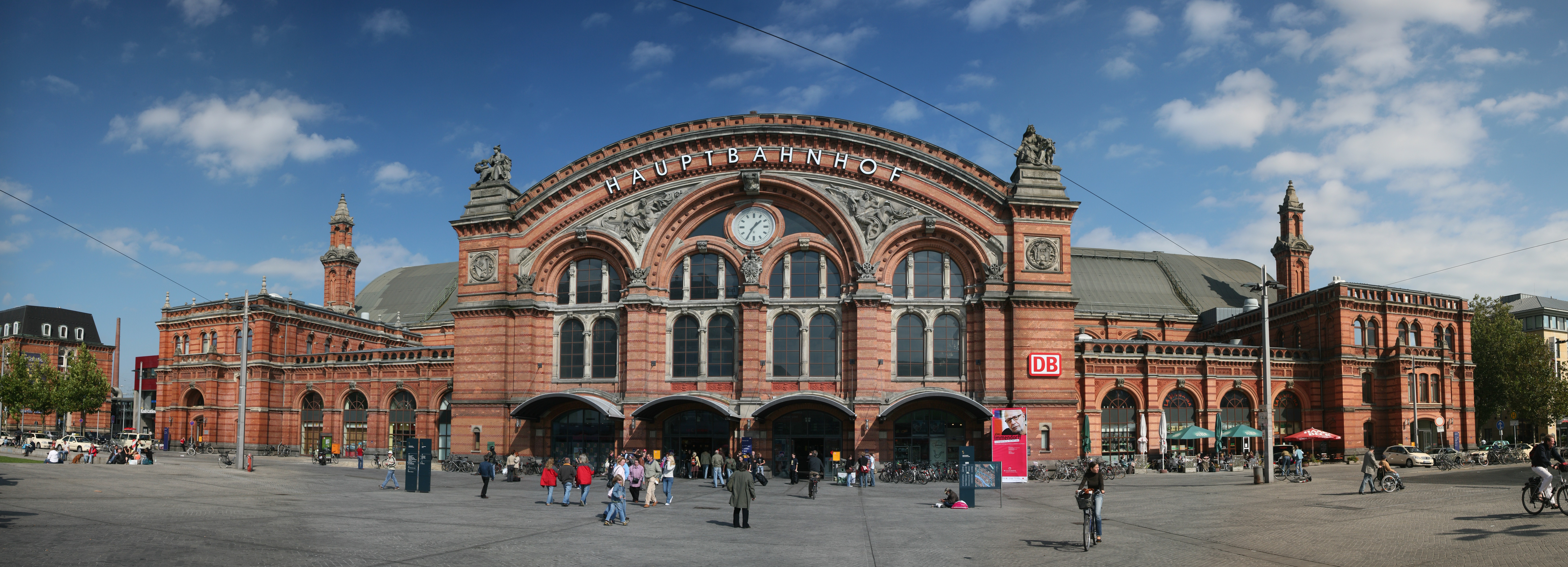 Main station in Bremen, Germany